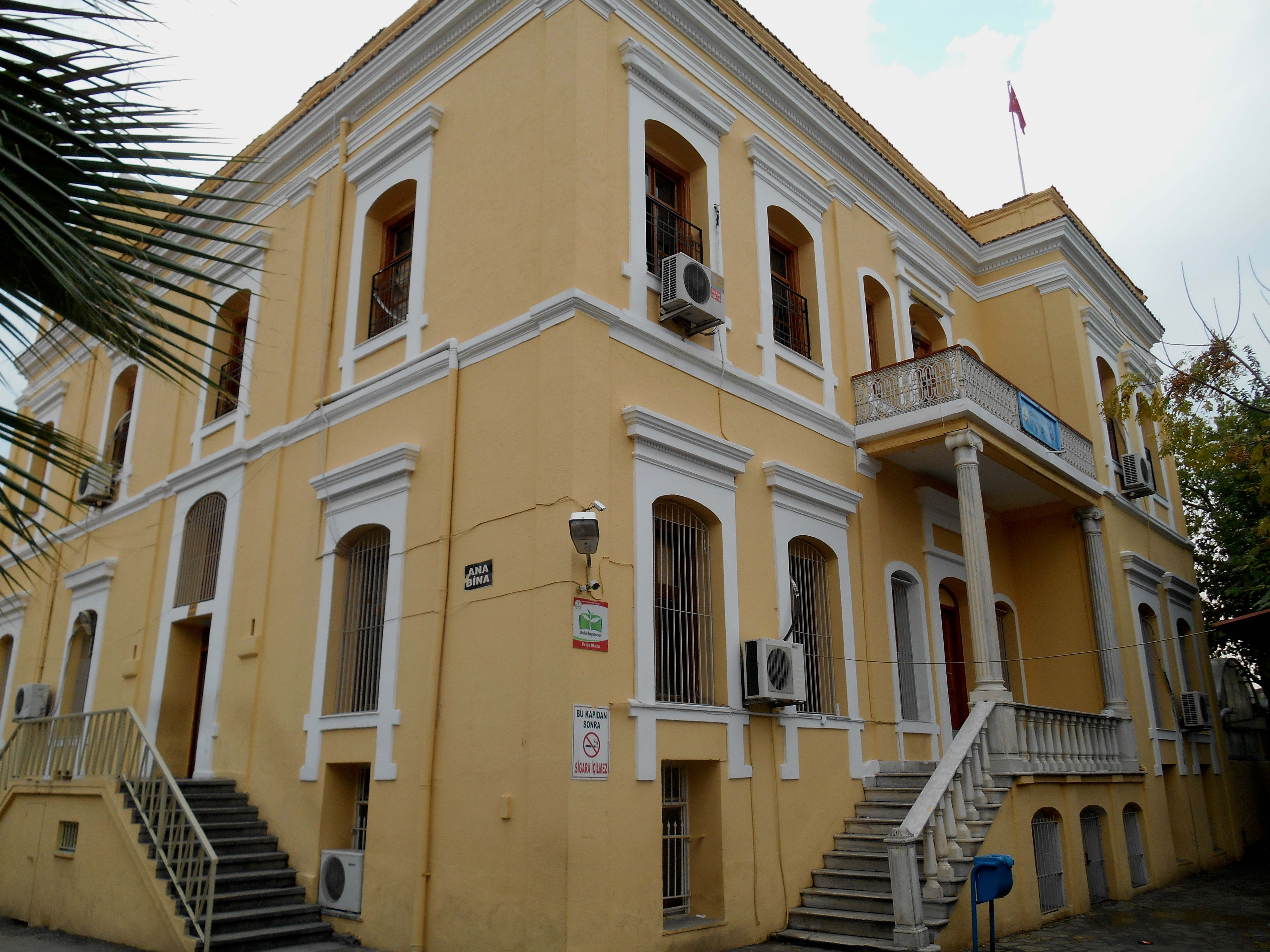 İstiklal High School (Former Greek Mansion)